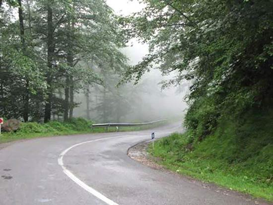 Baharestan road towards Astara, Iran